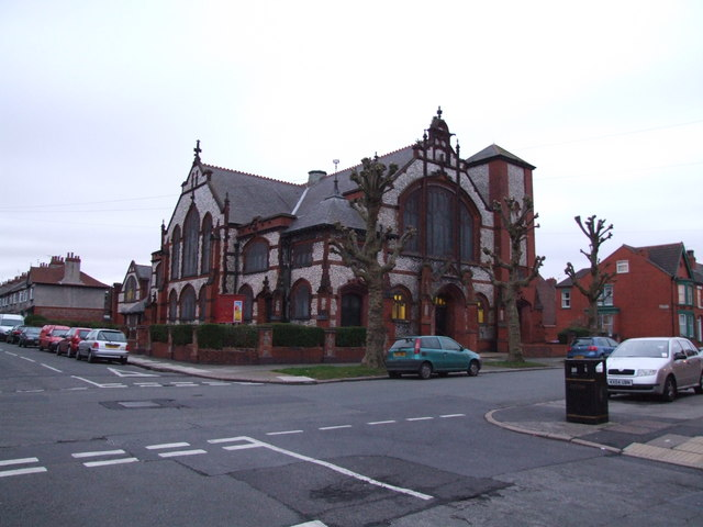 Dovedale Baptist Church from Barndale Road